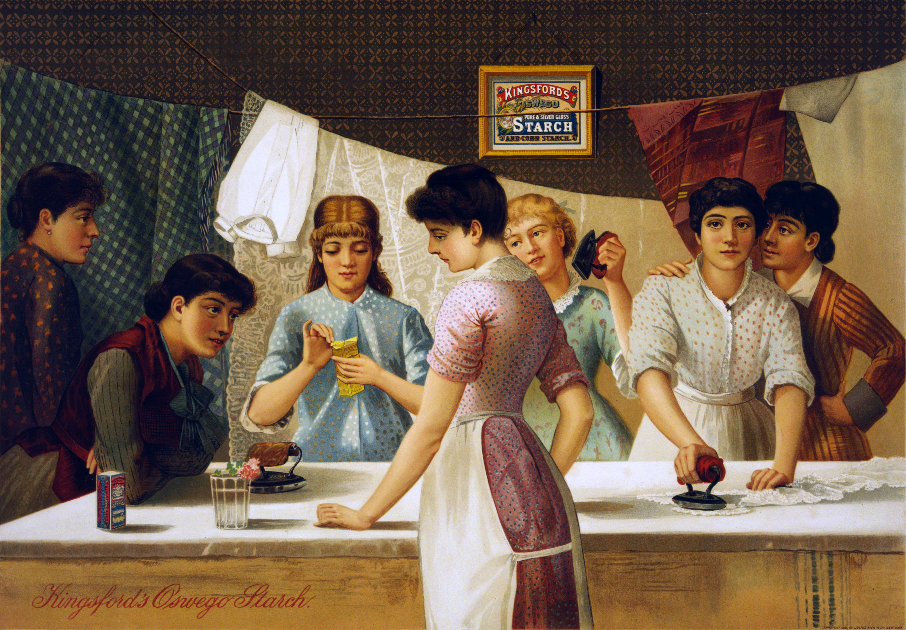 Kingsford's Oswego Starch. Advertisement showing seven women around table ironing. Lithograph by Julius Bien & Co., New York, c. 1885.